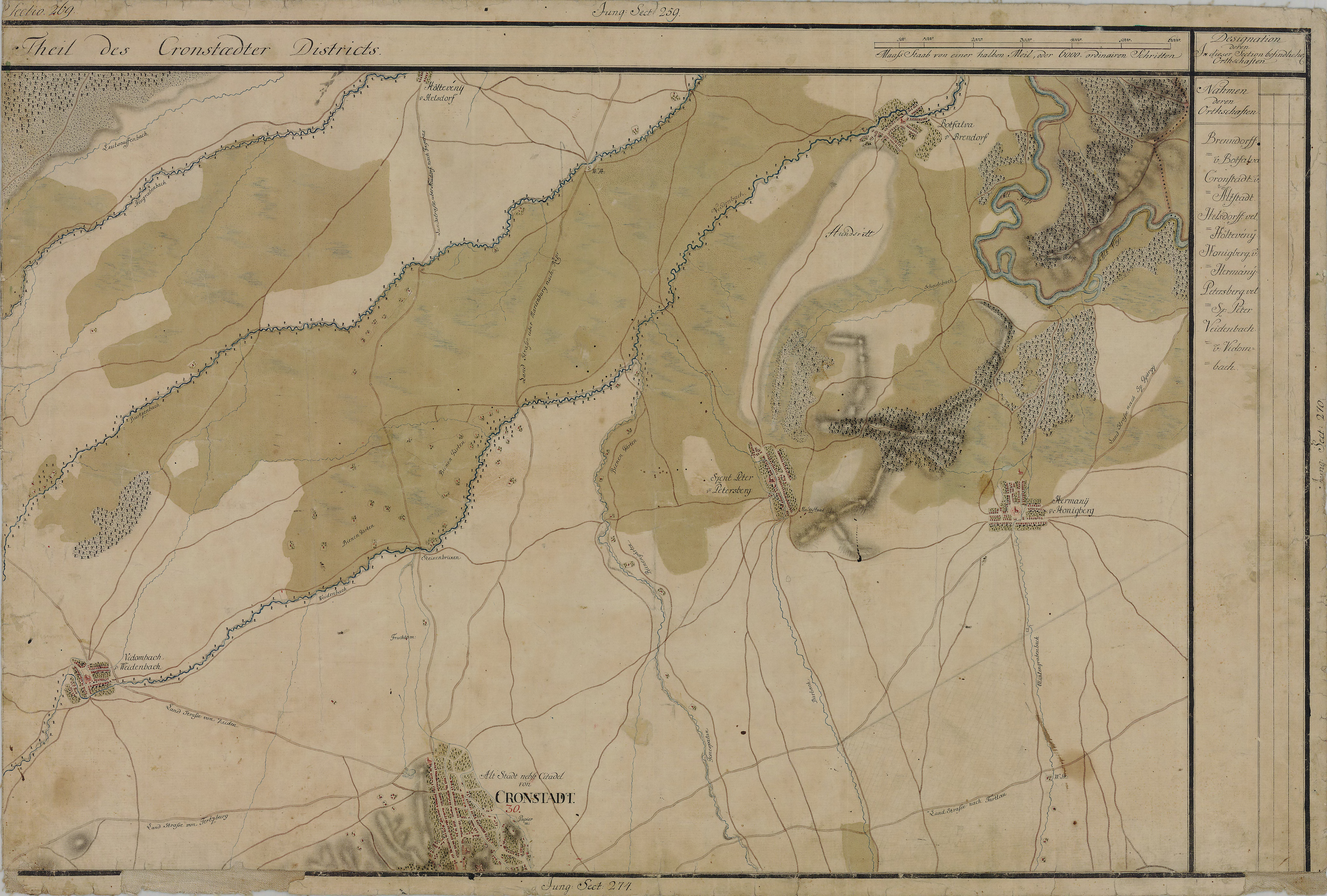 Grand Duchy of Transylvania, 1769-1773. Josephinische Landaufnahme pg.269